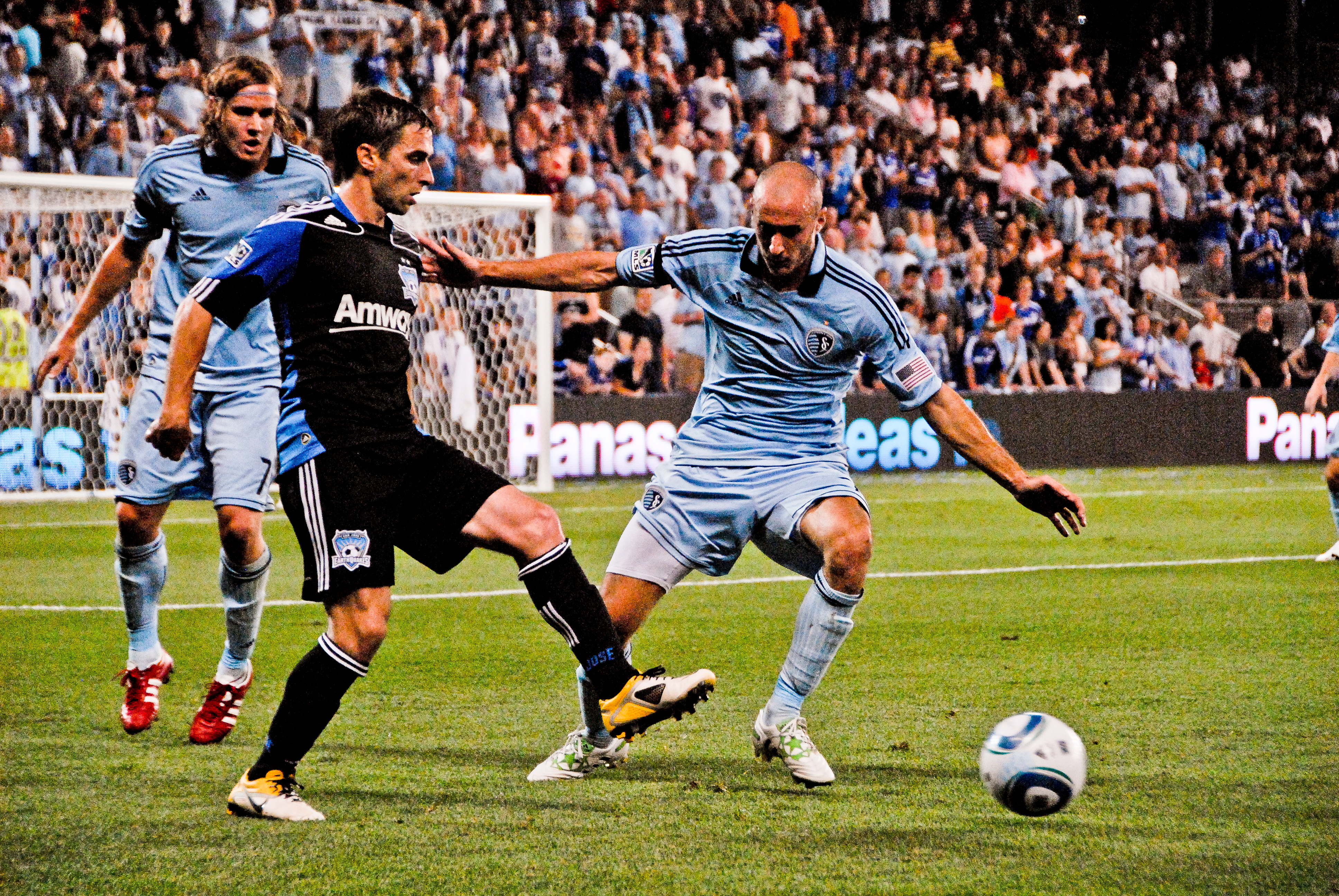 From left to right: Chance Myers of Sporting Kansas City, Bobby Convey of San Jose Earthquakes, Aurélien Collin of Kansas City. Sporting KC v San Jose Earthquakes @ LIVESTRONG Sporting Park